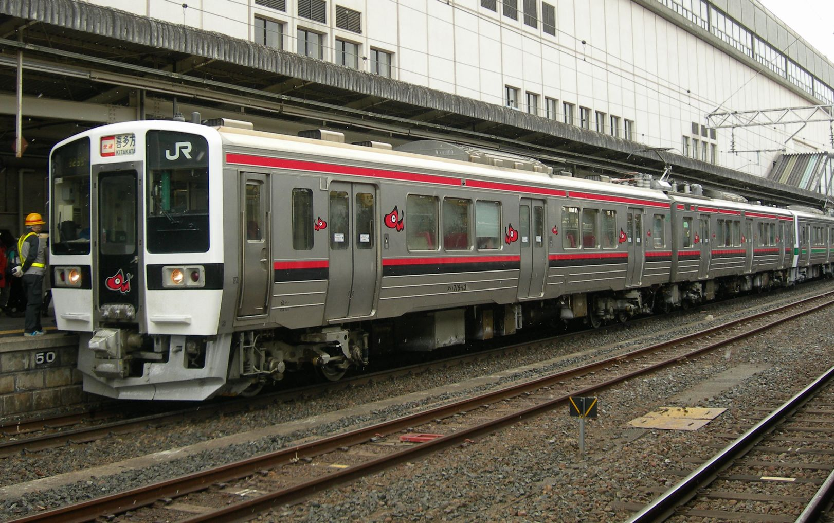 JR East 719 series EMU in Ban'etsu West Line colour at Koriyama Station